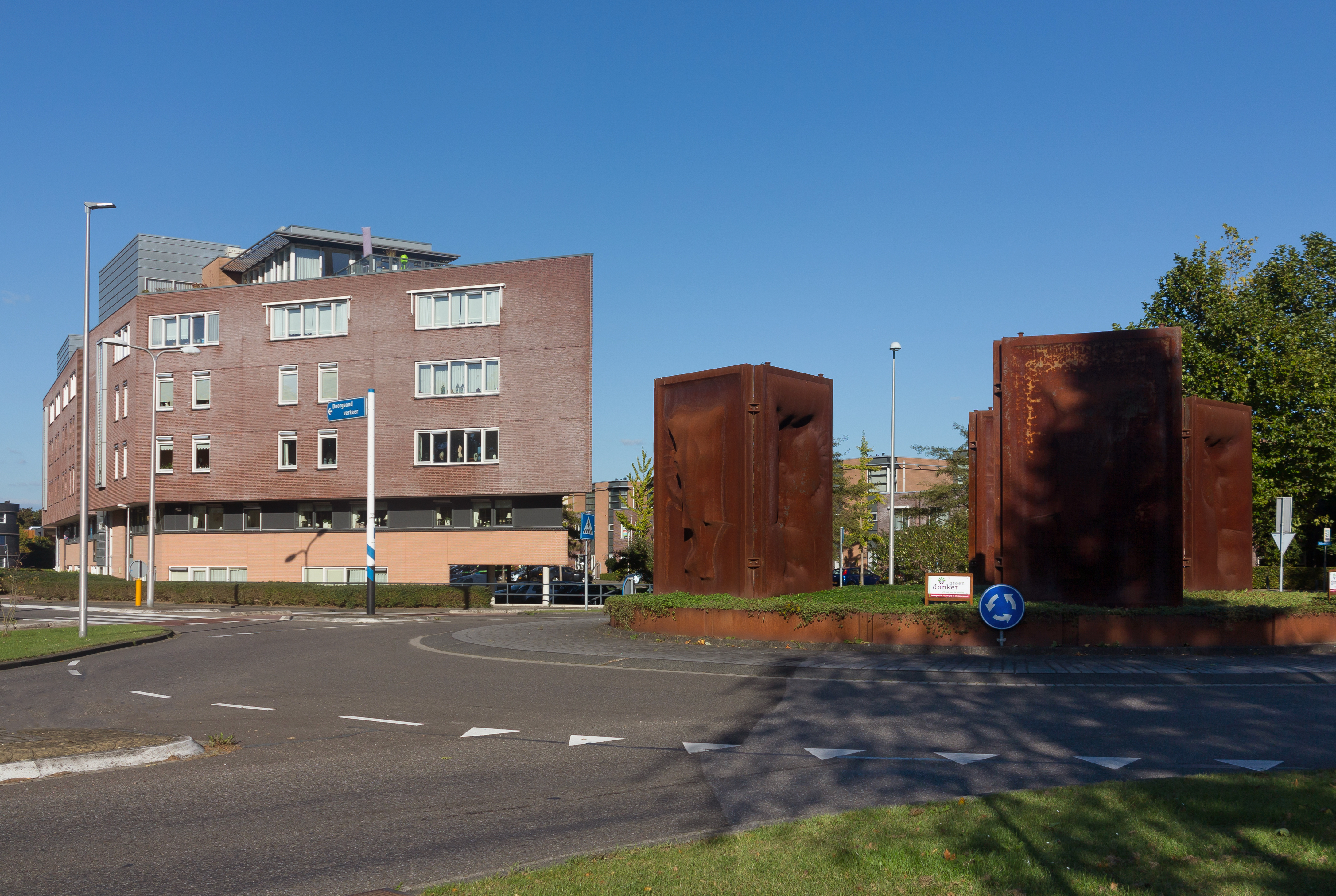 Vianen, roundabout: Aime Bonnastraat - Leyenborch